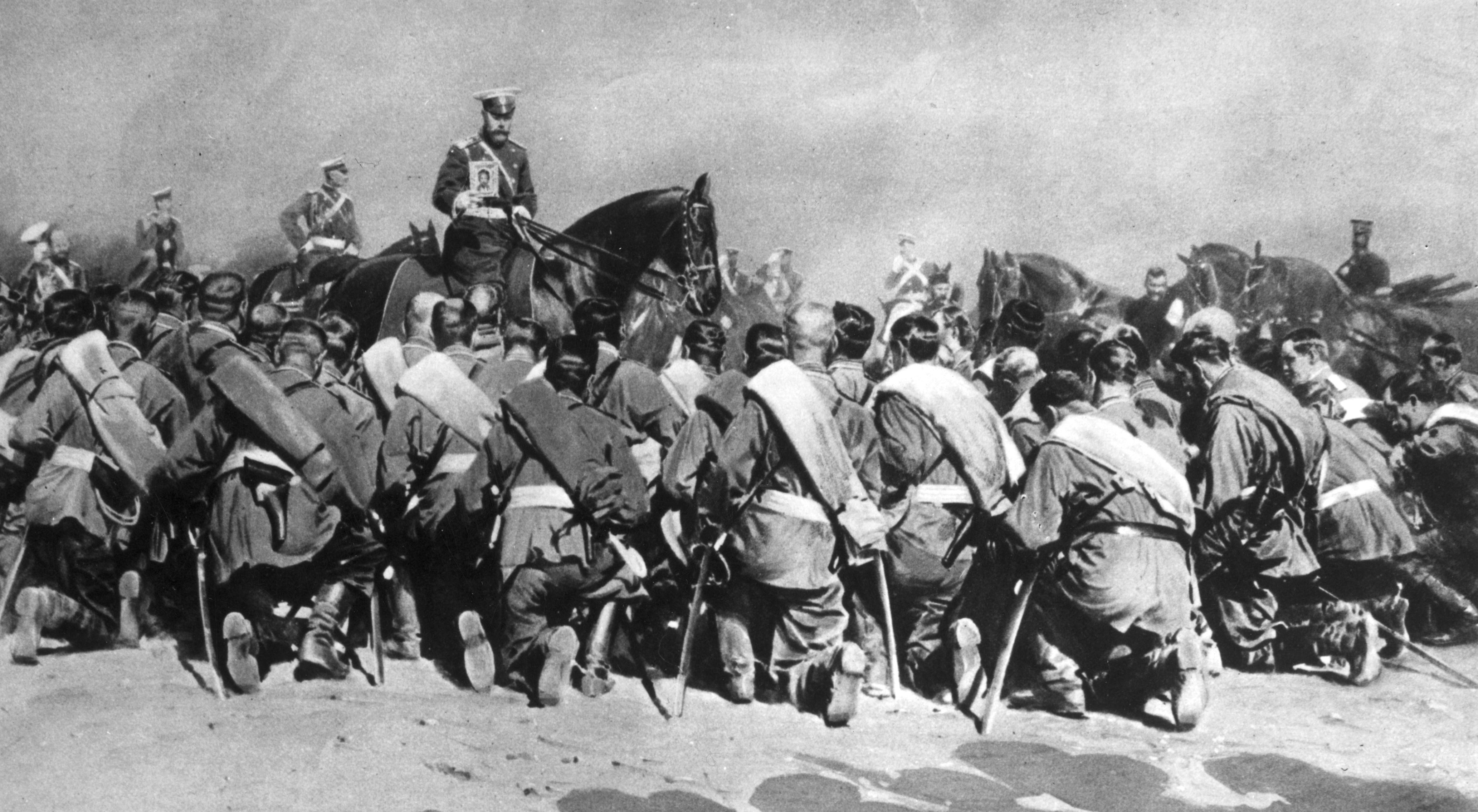 Russian Tzar Nicholas II riding along his troops, Russo-Japanese War.